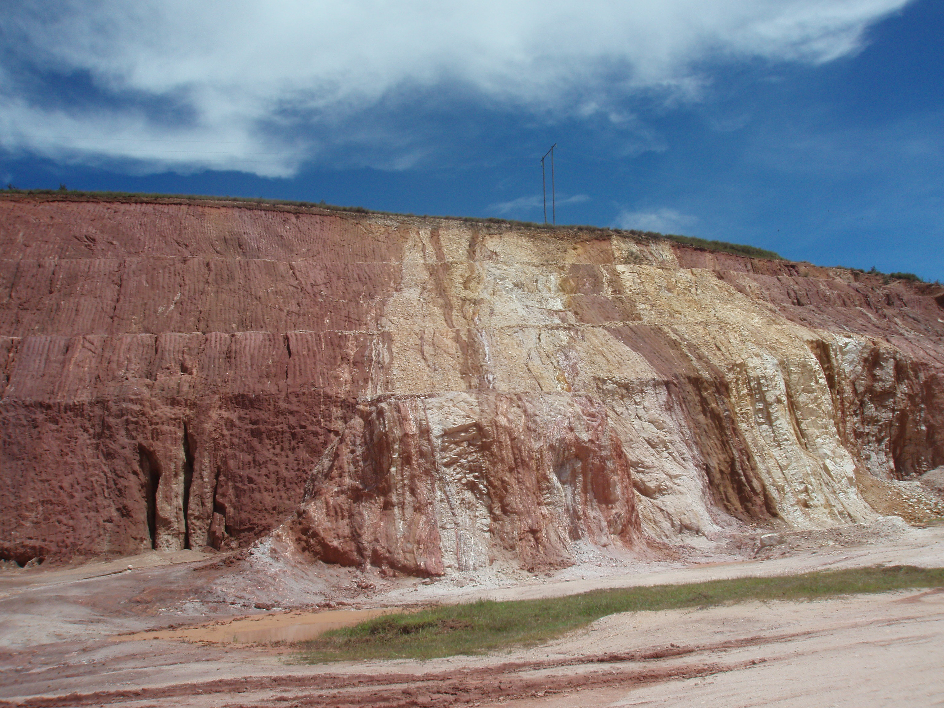 Approximately 15 meter high saprolite profile in weathered paragneisses and white quartzites. Near Ampanobe village, 8 km SE of Madagascar's capital Antananarivo.